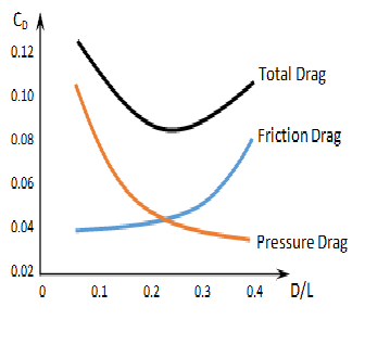 Trade-off relationship between pressure drag and friction drag